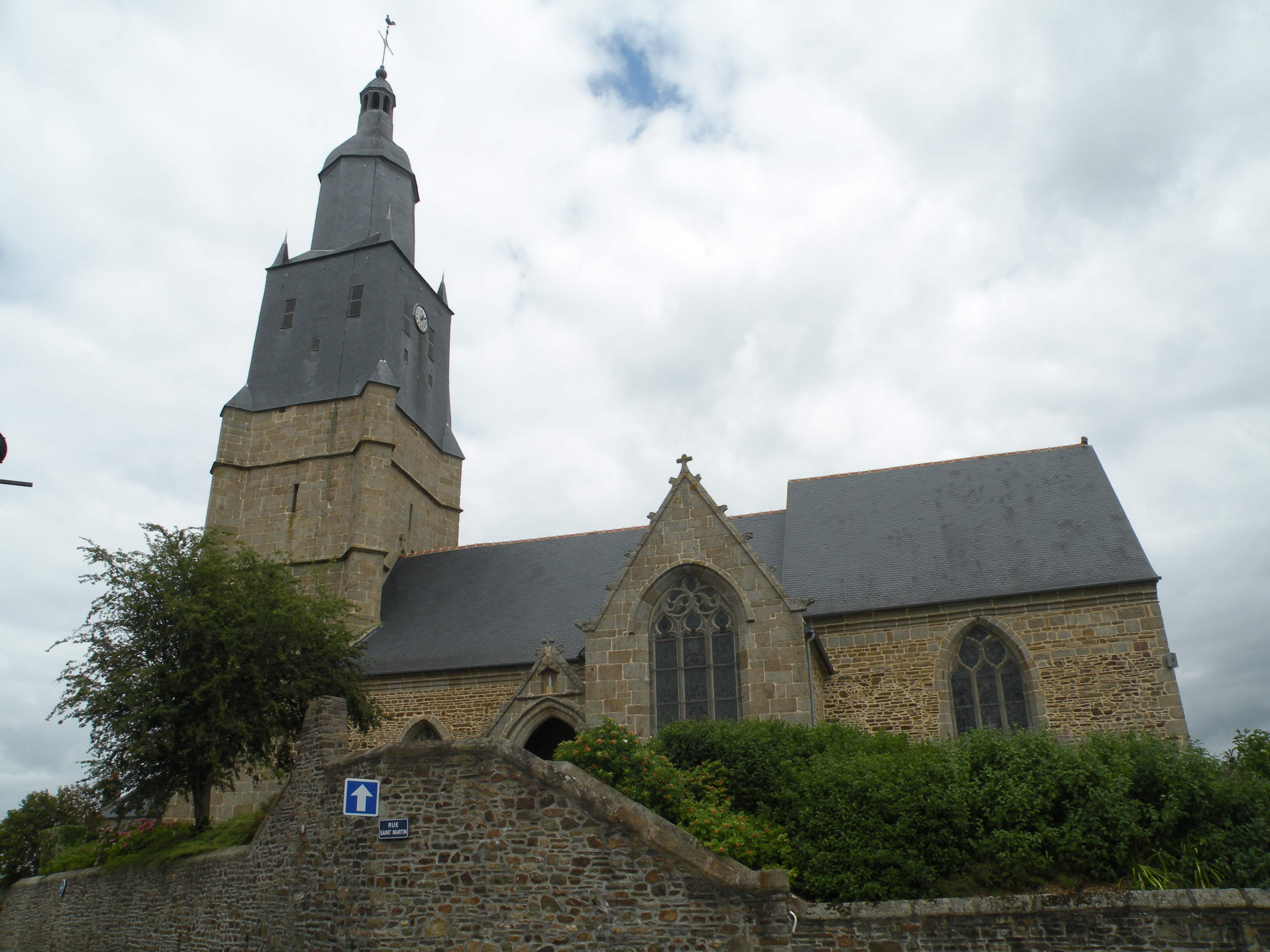 Church of Javené.